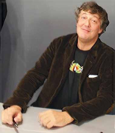 Image depicting Stephen Fry signing books and other items at an Apple Store in London.